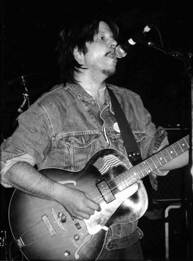 Picture of Grant Hart, previously of Hüsker Dü and Nova Mob. Taken at the Metro Club in London in May 2005.